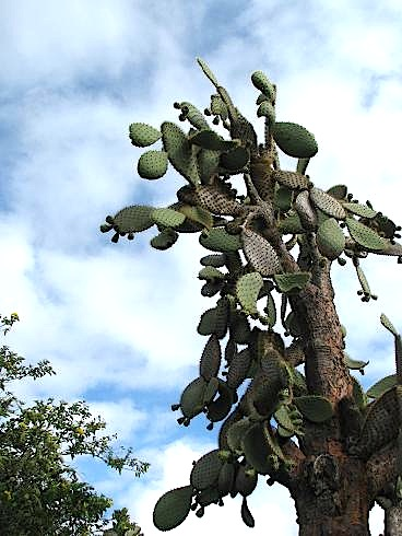 Opuntia tuna Megasperma. Charles Darwin Research Station. Santa Cruz